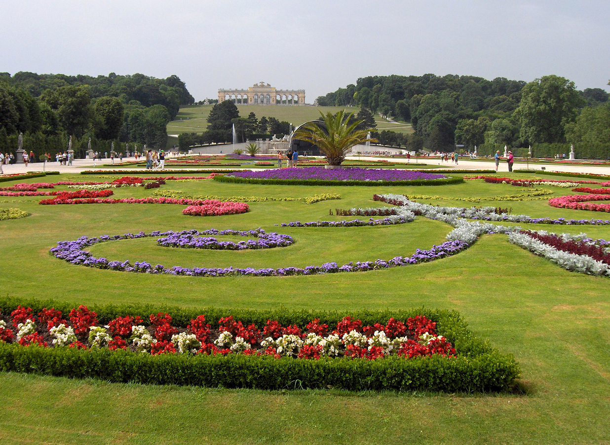 View on the Gloriette from the garden of the Schönbrunn Palace in Vienna, Austria